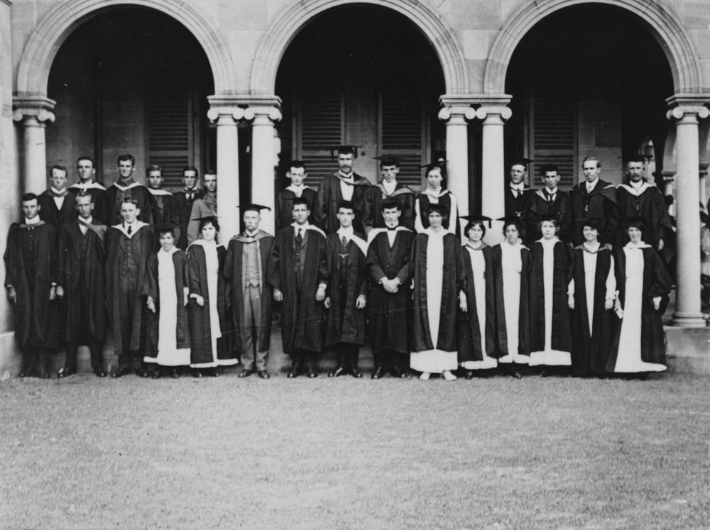 Group of Queensland University students, pictured at the Brisbane campus, ca. 1912